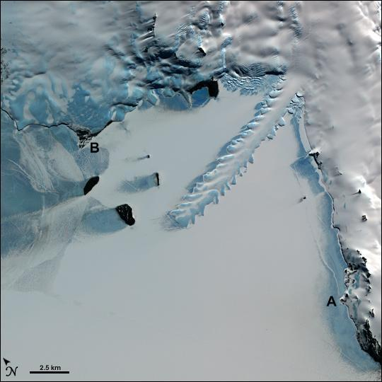 Map of the two possible mooring sites for the SY Aurora in 1915 in McMurdo Sound in Antarctica, superimposed on a much later image. The possible mooring sites for the ship were: the known mooring site at Hut Point (A) and the site they chose at Cape Evans (B). In this image, the Erebus ice tongue is shown extending from the Erebus glacier on Ross Island, Antarctica, into frozen McMurdo Sound.